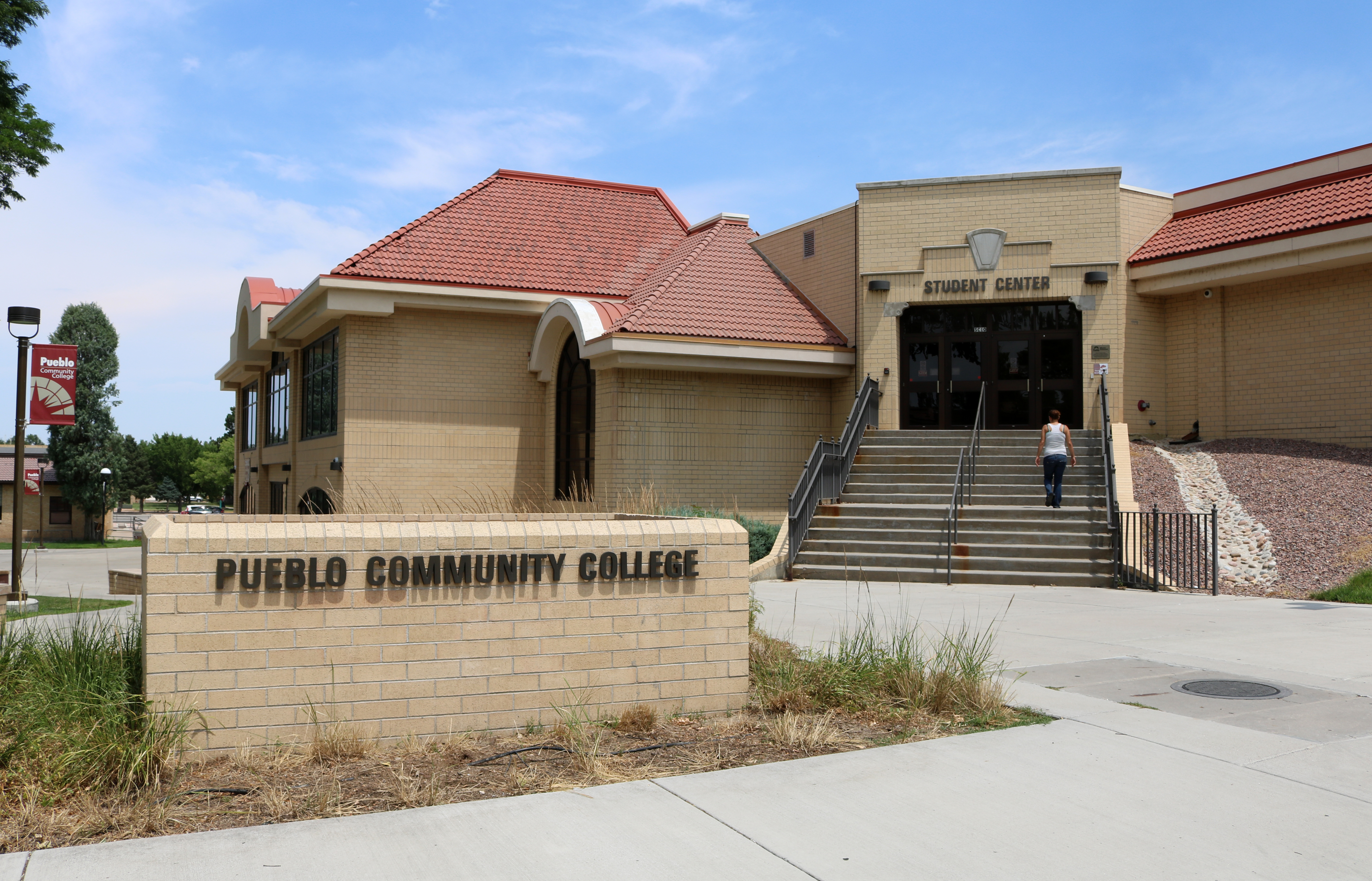 Pueblo Community College in Pueblo, Colorado. The view is of the entrance to the Student Center building along West Orman Avenue.